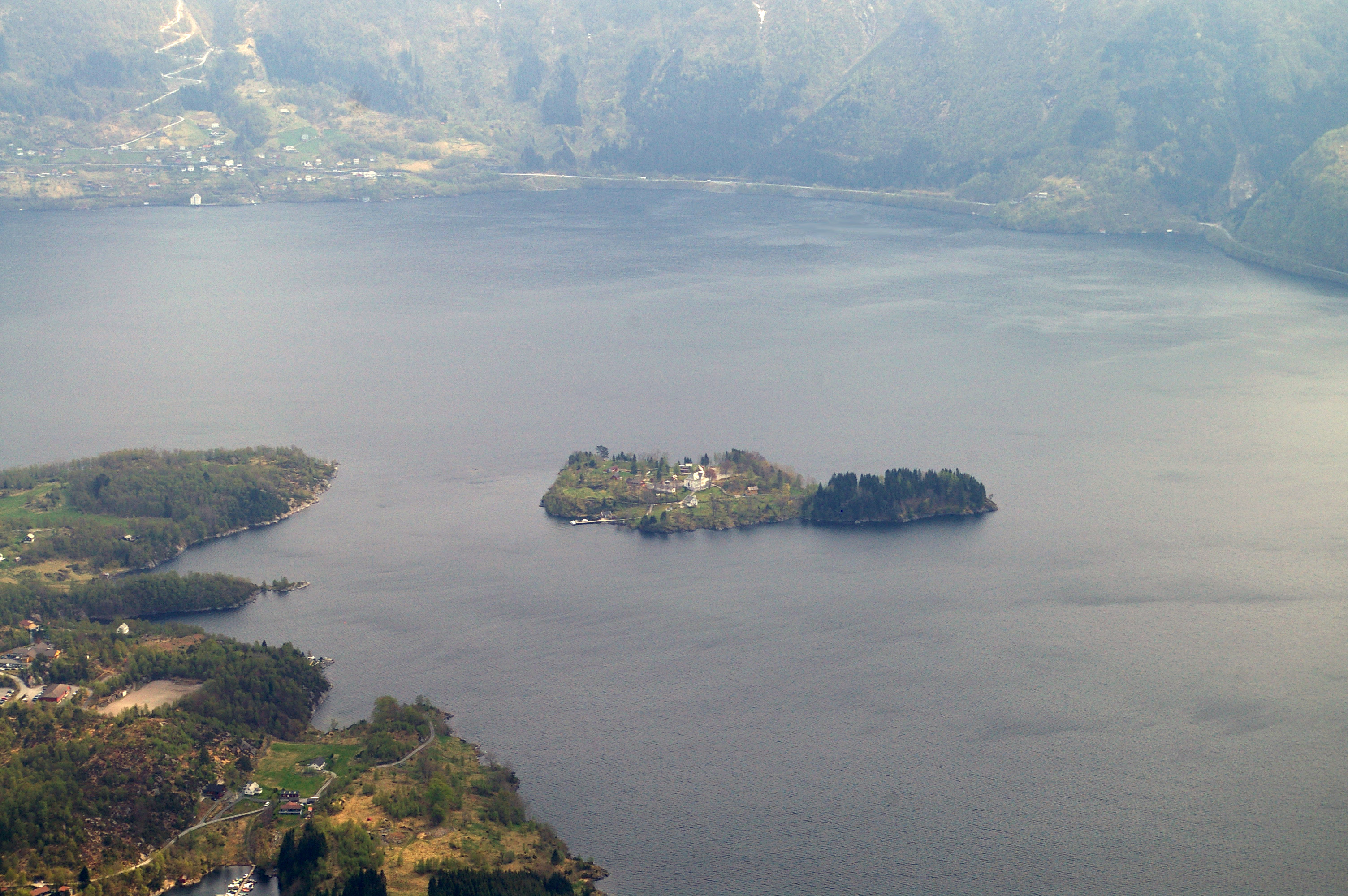 Olsnes Island in Sørfjorden, at Osterøy, Hordaland, Norway, seen from the top of Brøknipa.